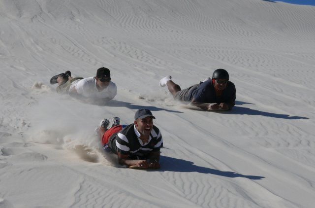 Ladybird Sandboarding lie down sandboarding in Atlantis dunes, Cape Town.